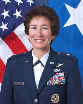 Brigadier General Susan Y. Desjardins is the Commandant of Cadets and Commander, 34th Training Wing, United States Air Force Academy